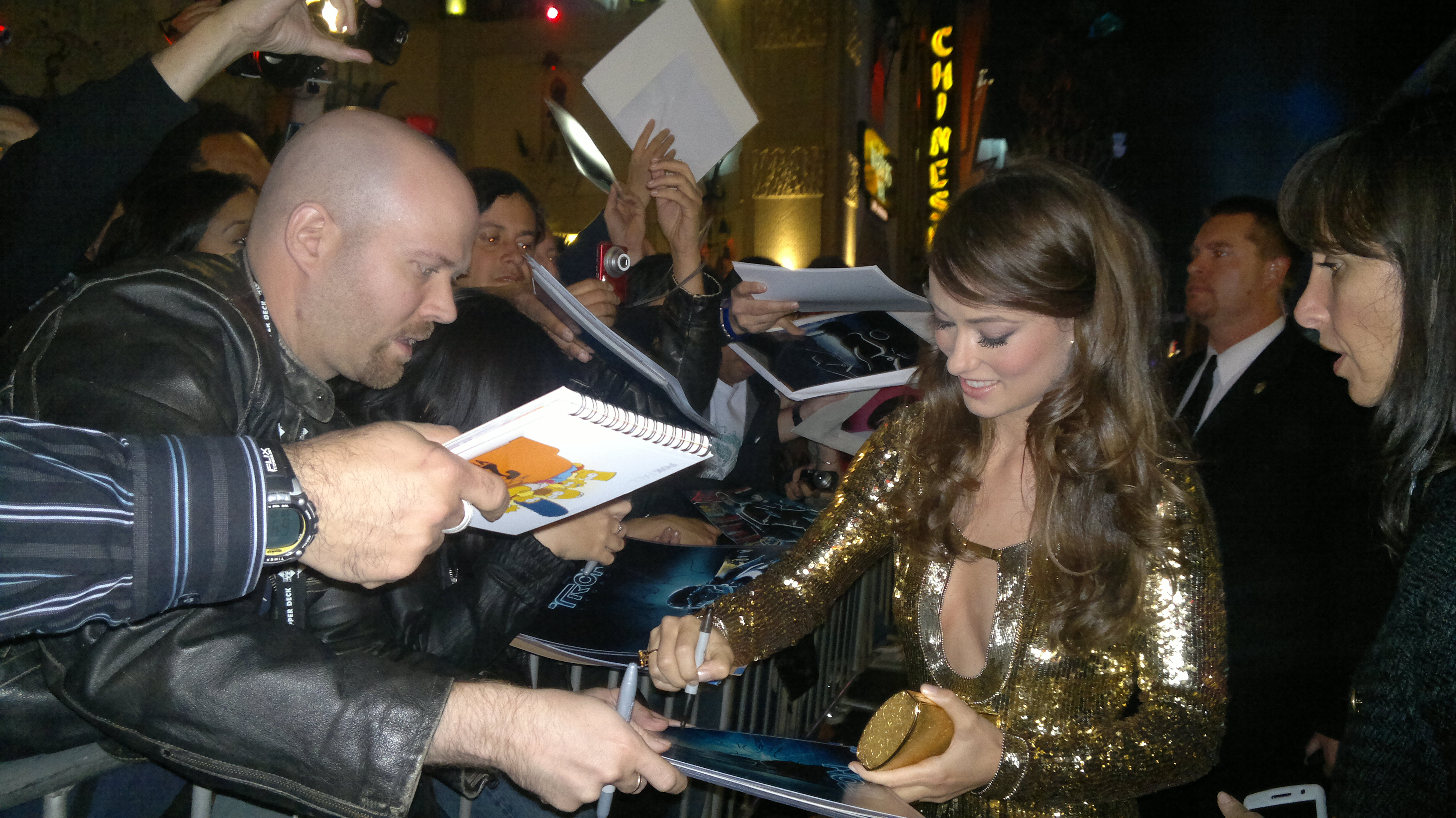 Olivia Wilde signing autographs.